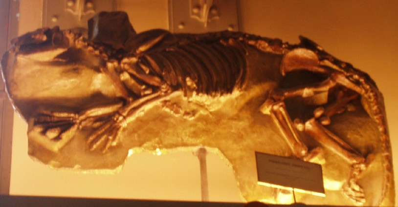 Skeleton of Phenacodus primaevus, an early Eocene mammal